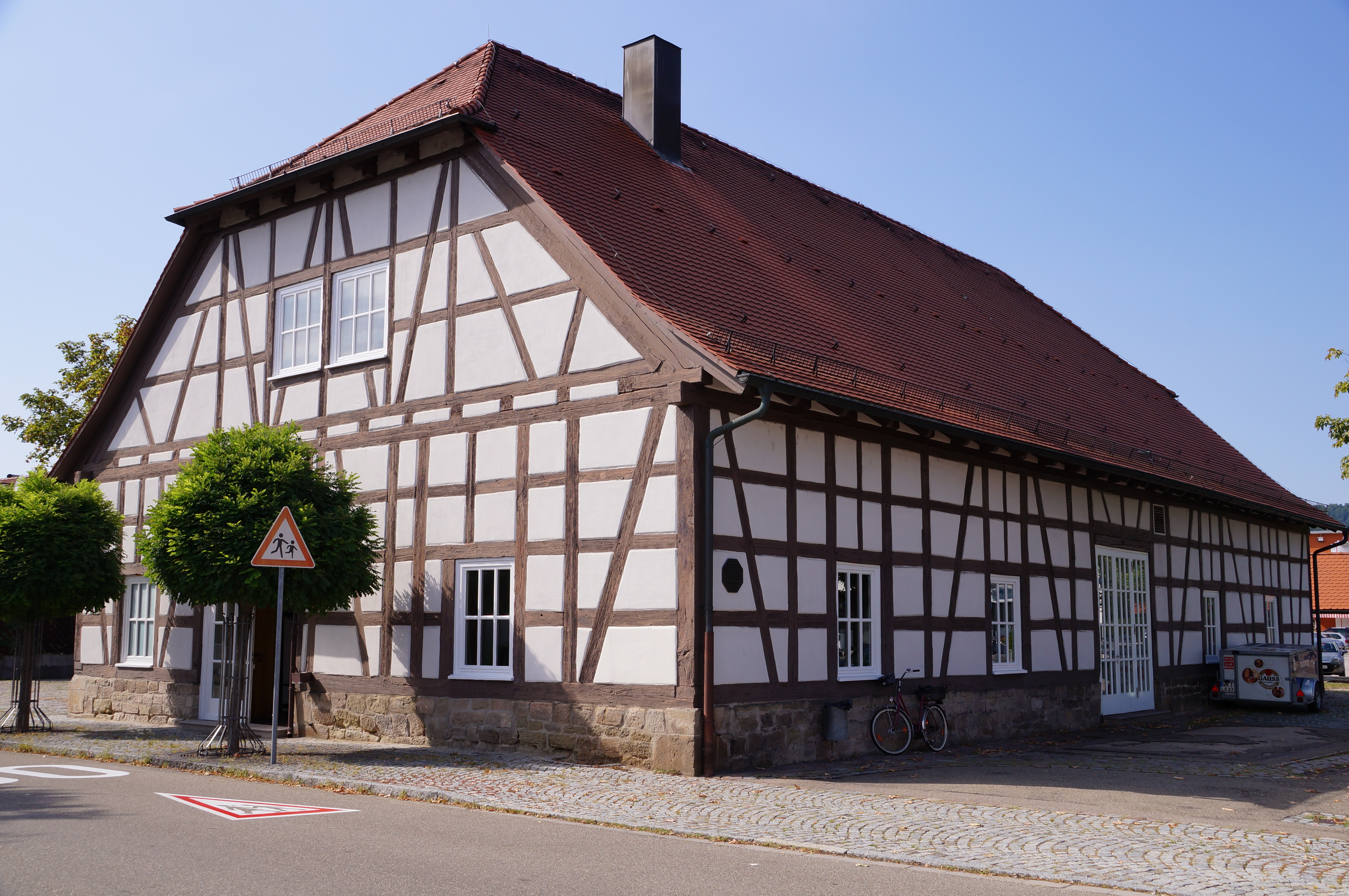 Historical community center of Winterbach